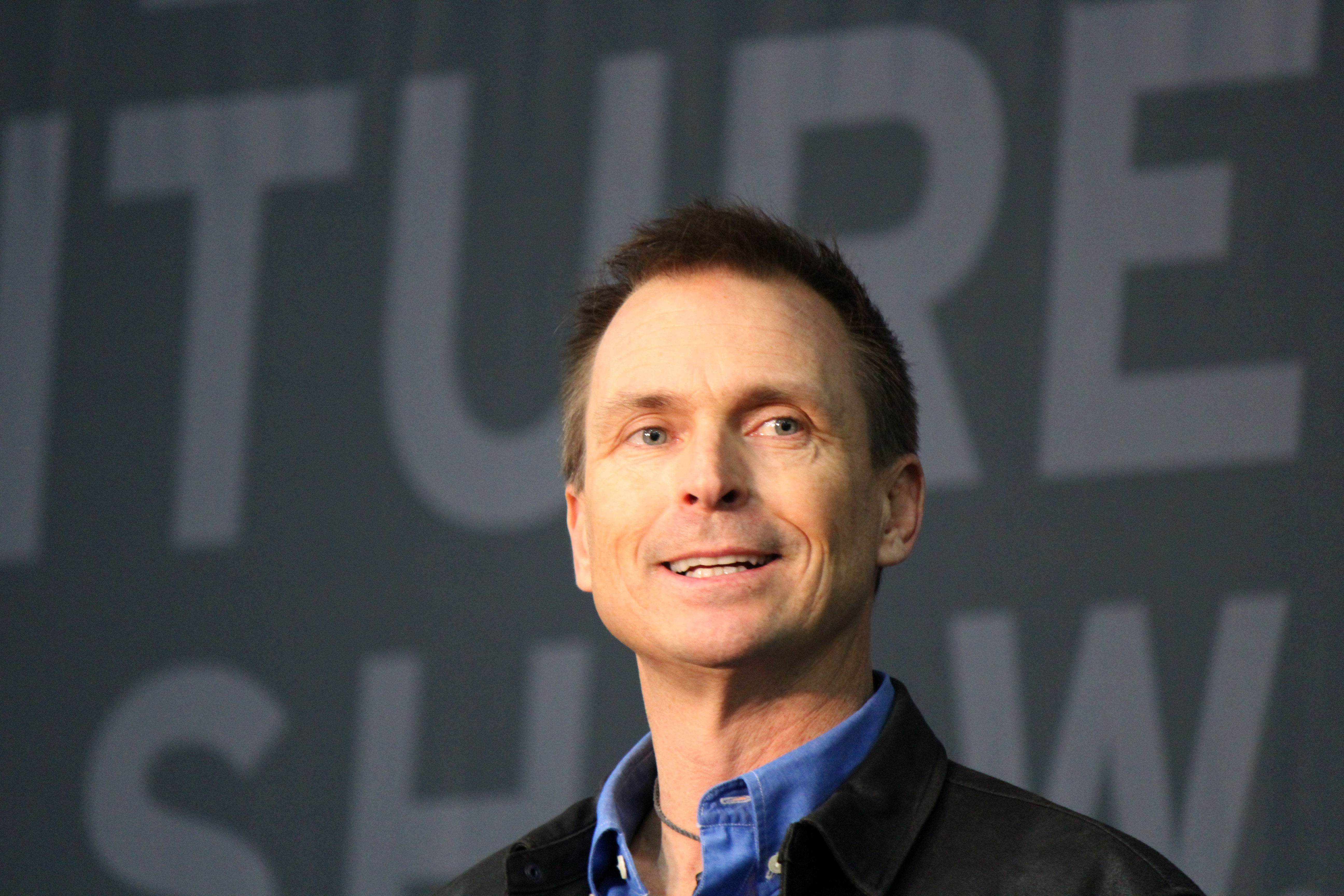 Phil Keoghan speaking at the San Diego Travel & Adventure Show at the San Diego Convention Center.